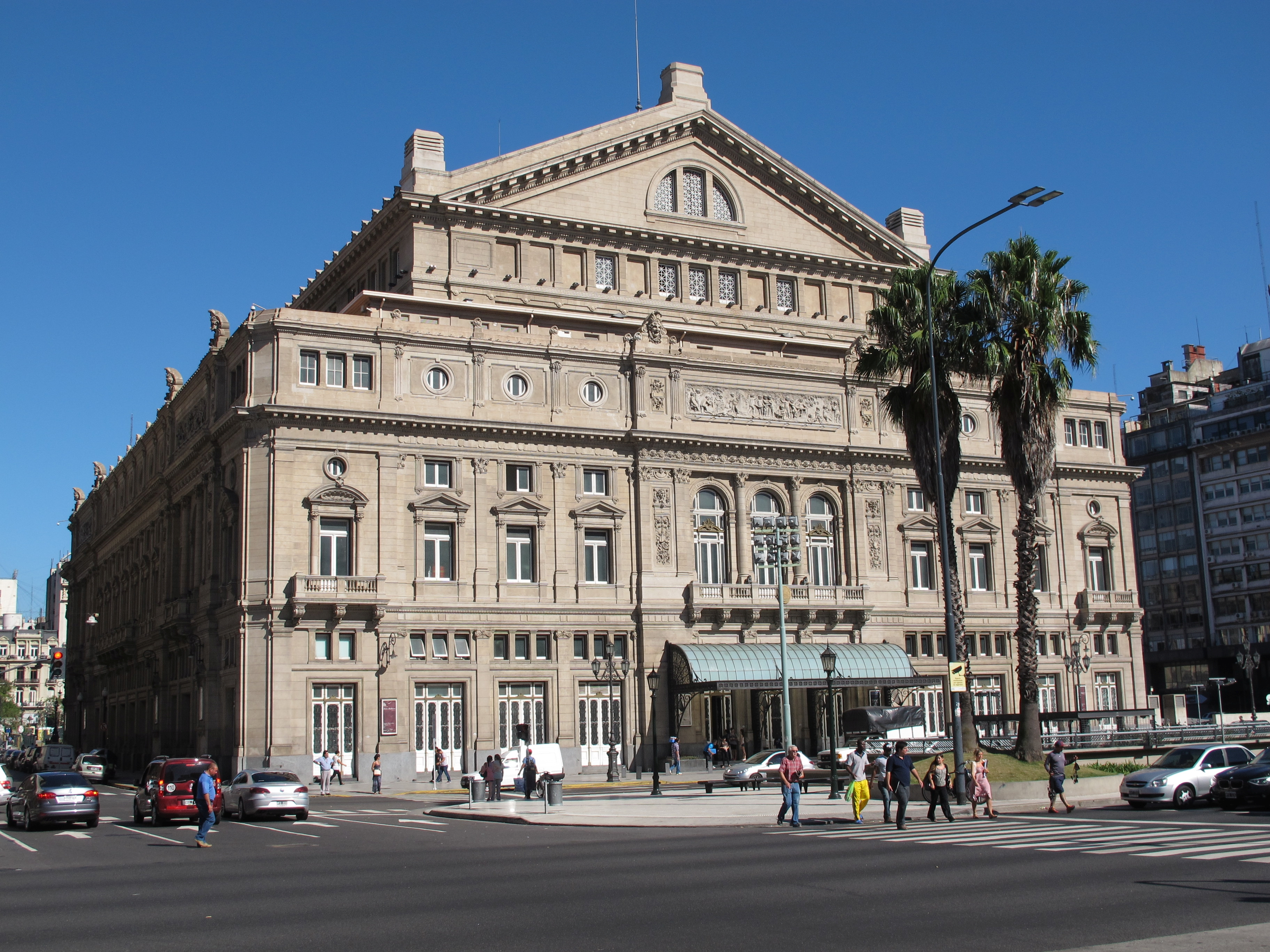 Buenos Aires - Teatro Colón